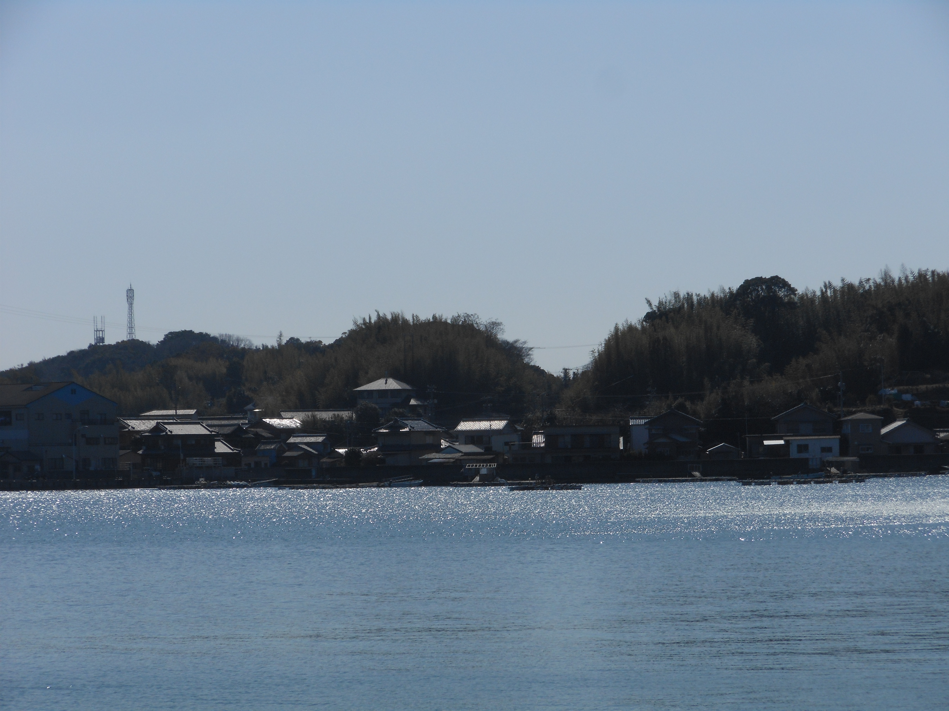 This is a landscape of Isobecho-Sangasho, Shima city, Mie prefecture, Japan.